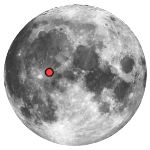 Location of the Eratosthenes crater on the Moon.